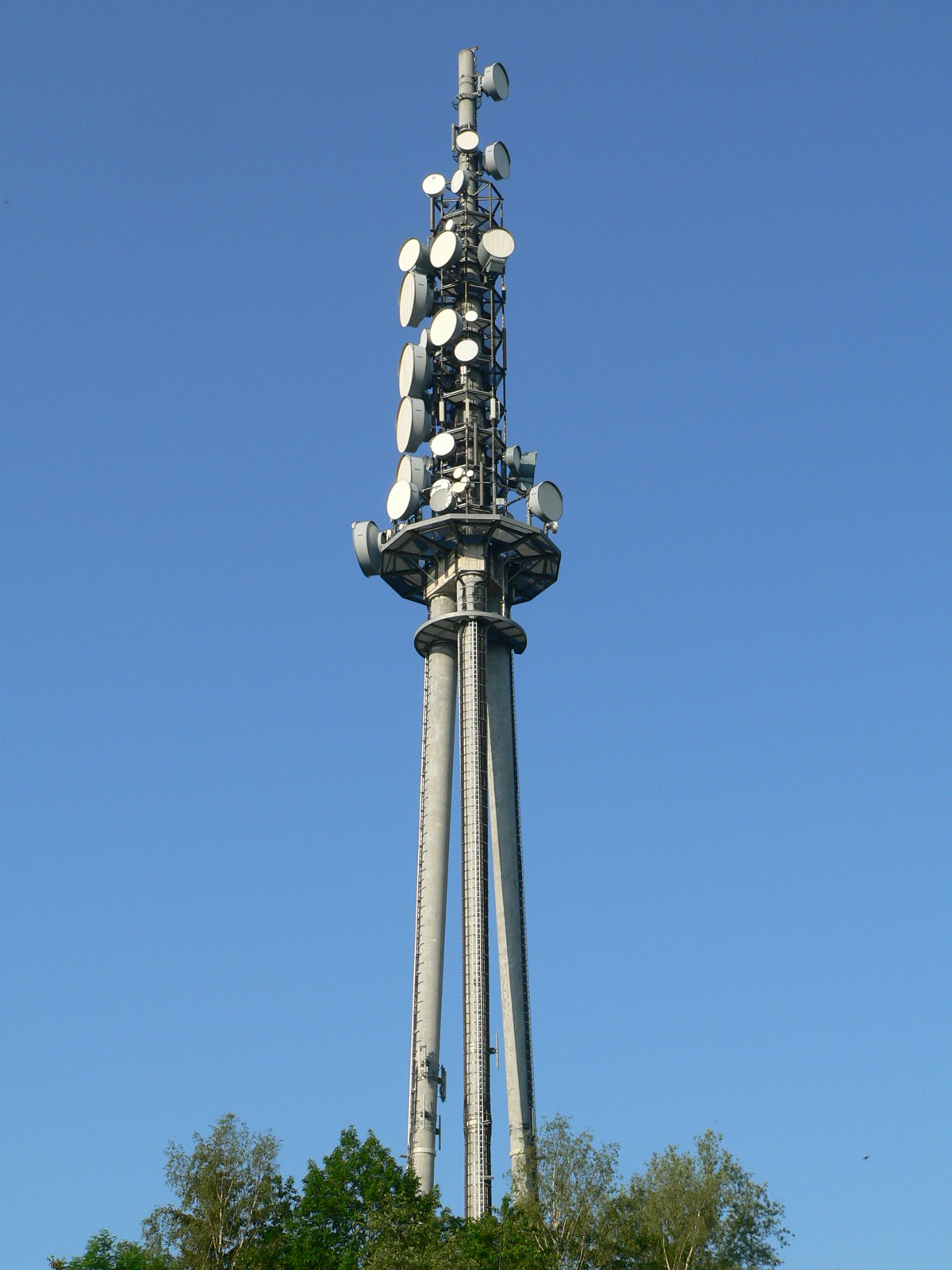 Telecommunication tower "Vaihinger Stativ" in Stuttgart, Germany